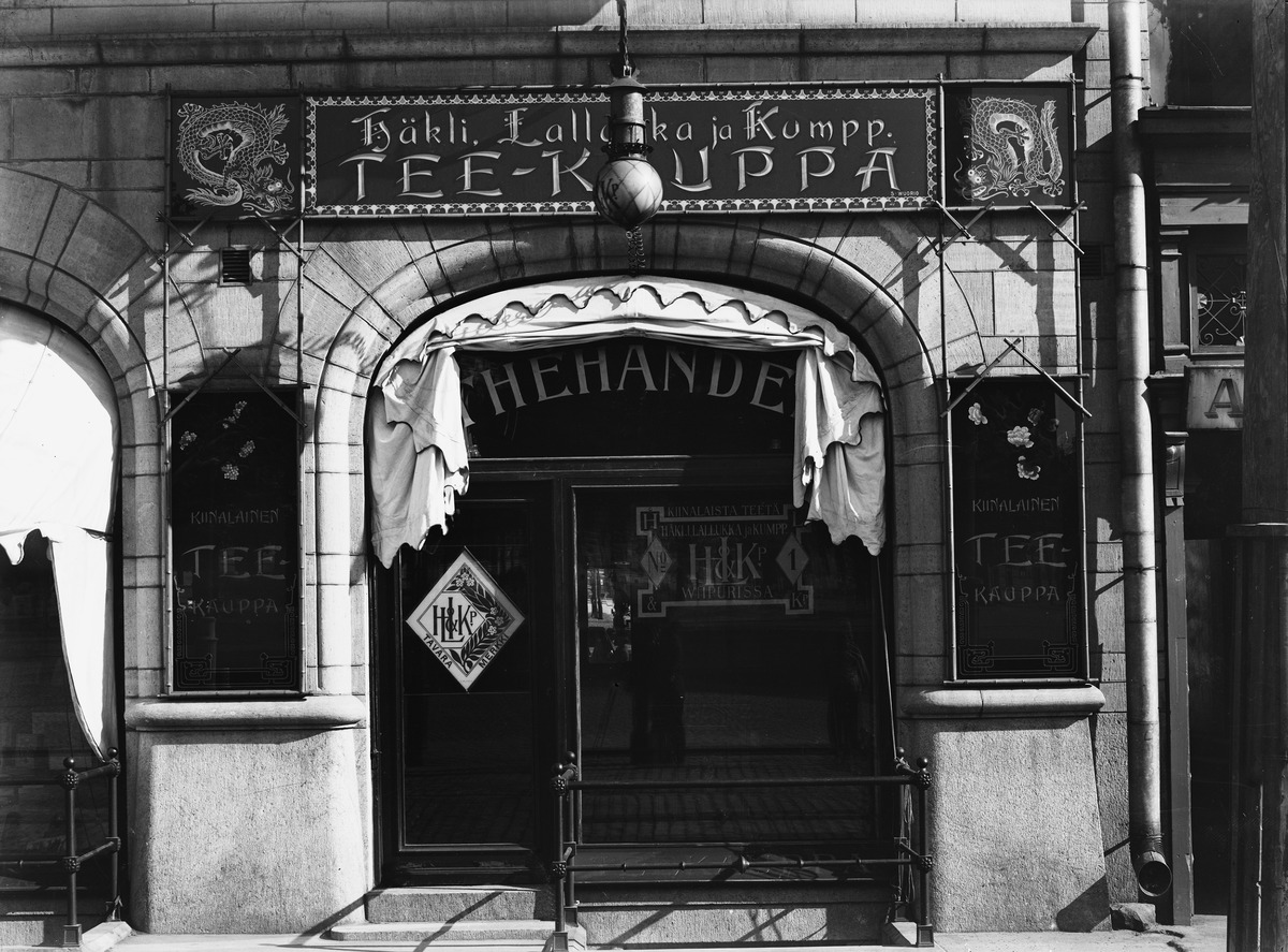 Oriental tea shop Häkli, Lallukka & Co. in Helsinki, Finland, ca. 1900.